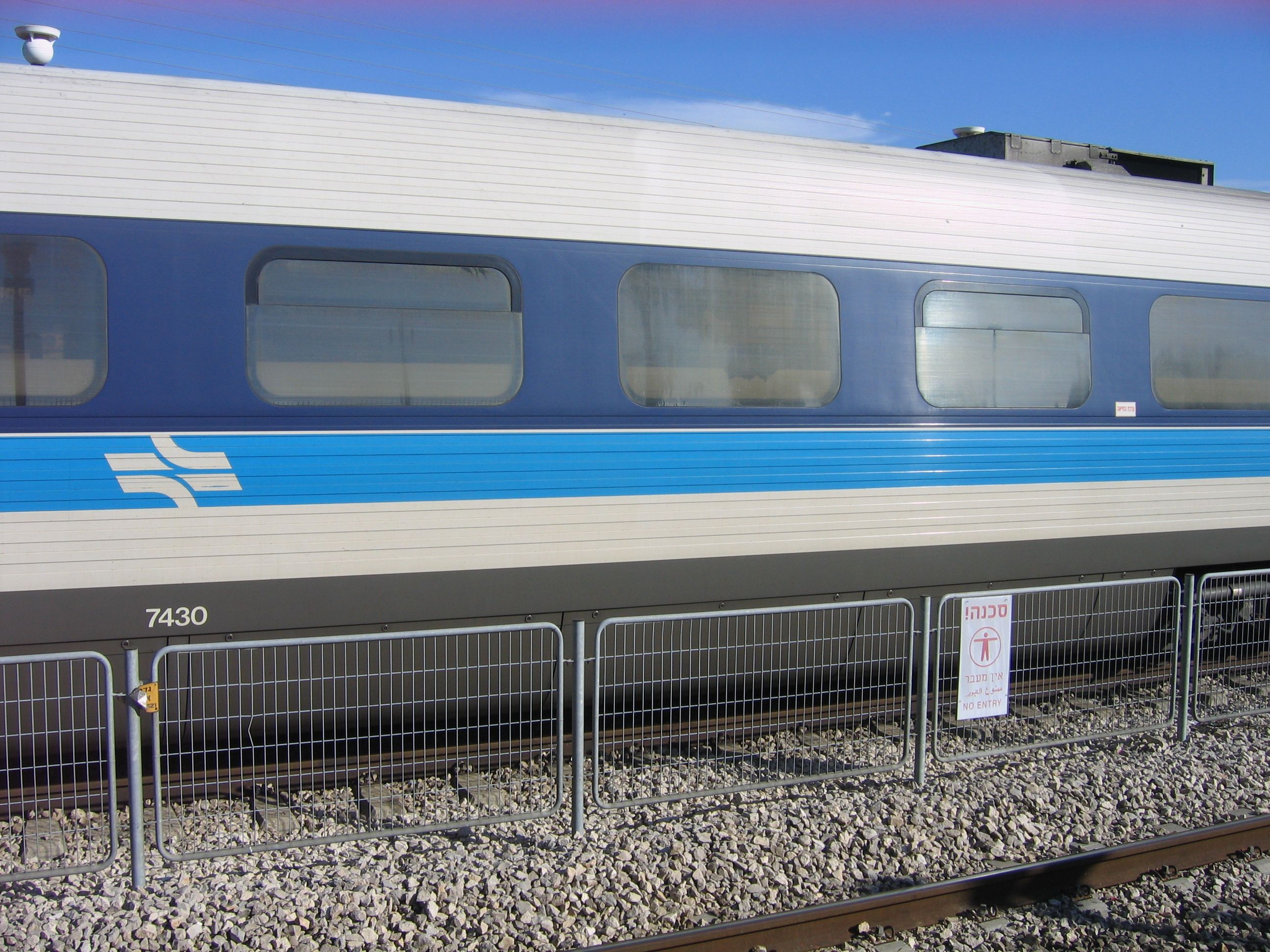 Logo of Israel Railways on an IC3-train